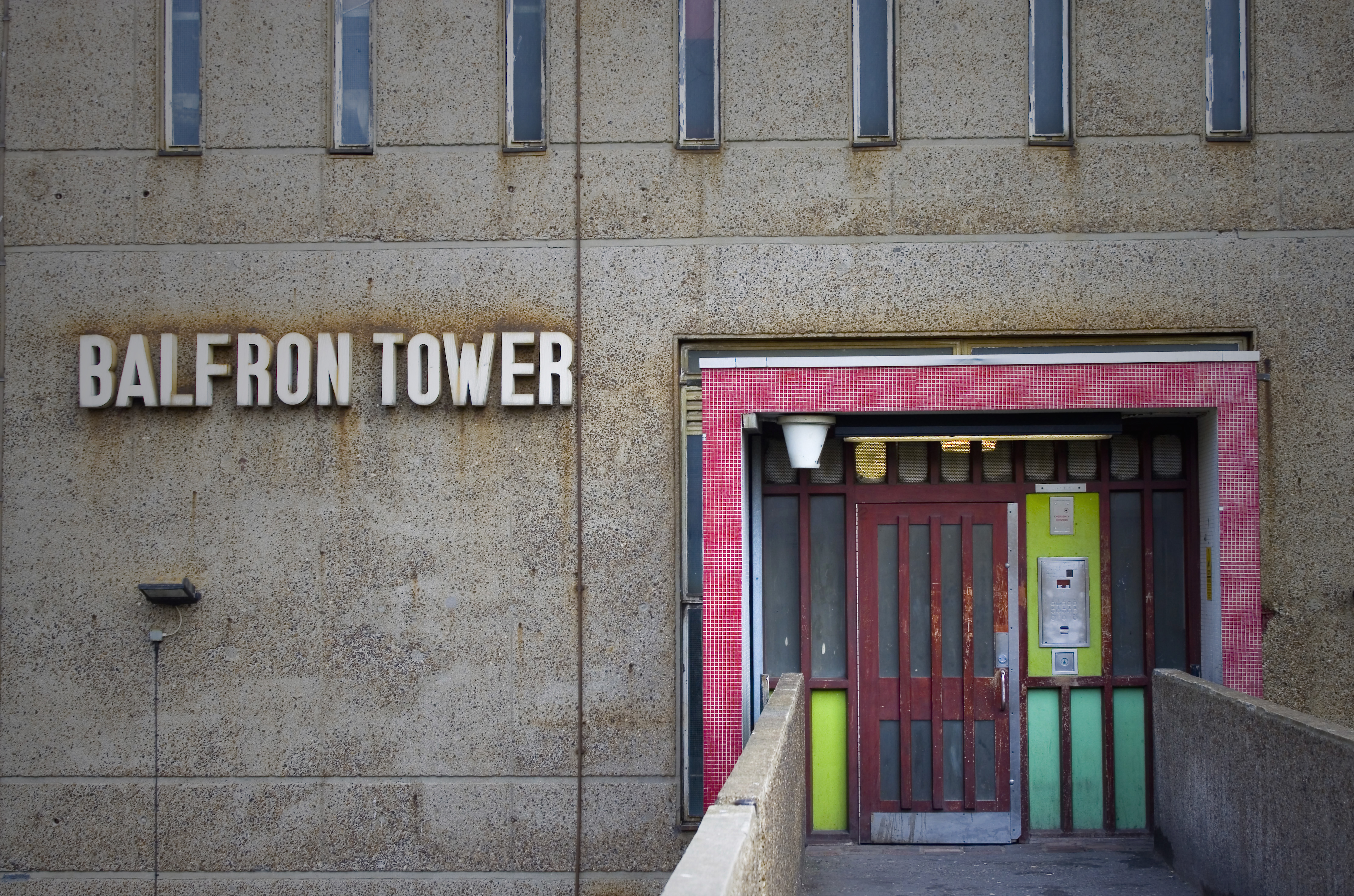 Balfron Tower entrance door. Erno Goldfinger brutalist architecture